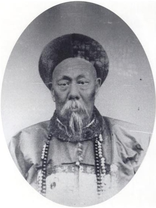 Qing dynasty Chinese muslim General Dong Fuxiang. Born in 1840, died in 1908.